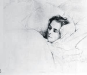 La mort de Marie Bashkirtseff